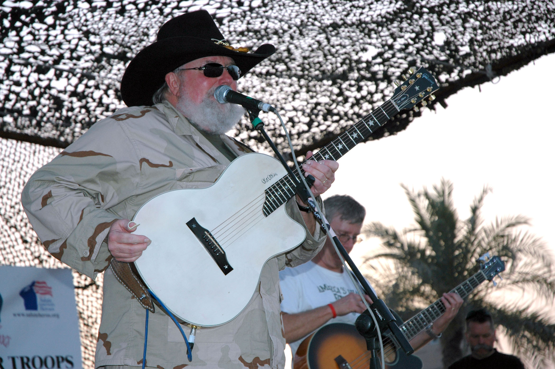 Charlie Daniels and the Charlie Daniels Band played for throngs of Coalition troops near the Sports Oasis Dining Facility at Camp Victory, Iraq, April 10. (U.S. Army photo by Spc. Jeremy D. Crisp.)